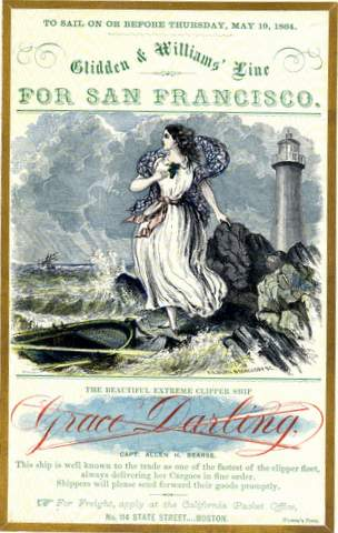 GRACE DARLING Clipper ship sailing card Capt. Allen H. Bearse To sail on or before May, 19, 1864 For San Francisco State Street, Boston